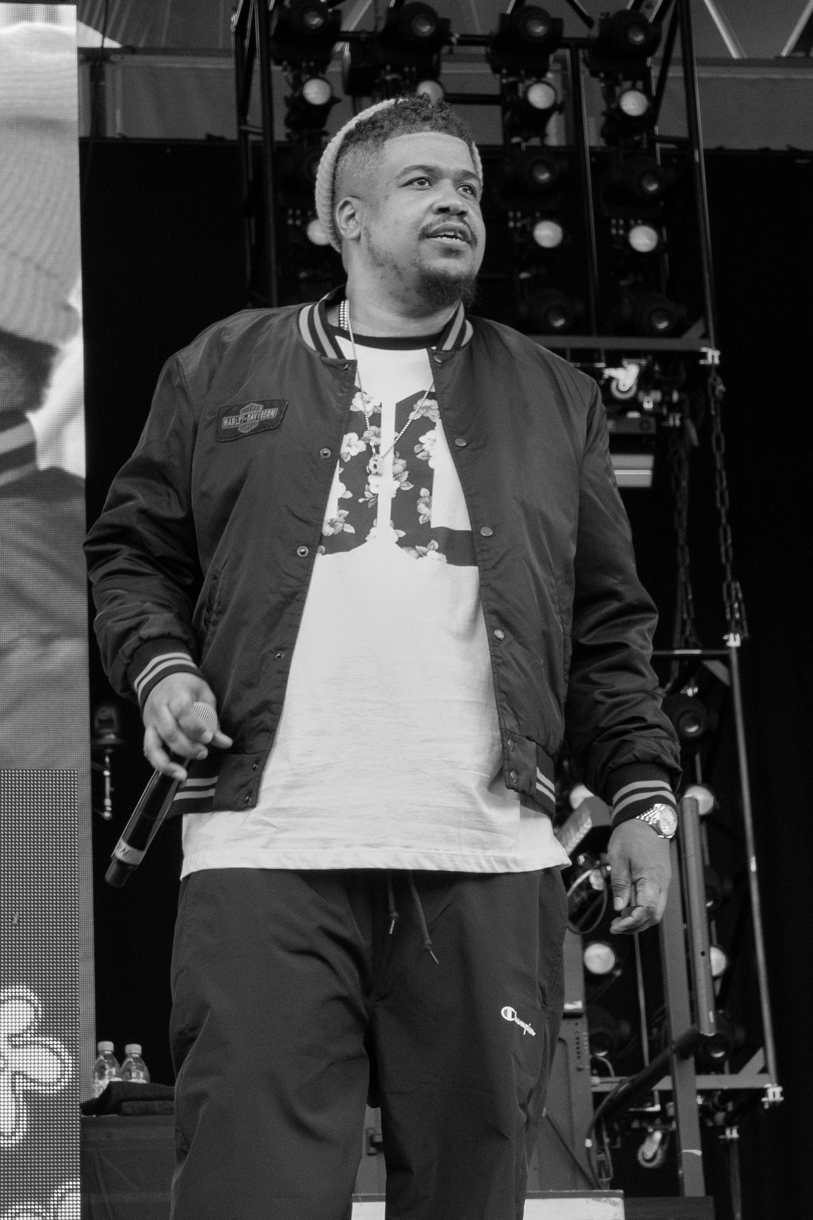 David Jude Jolicoeur aka Dave of De La Soul at Gods of Rap 2019 in Berlin, Germany - Parkbühne Wuhlheide